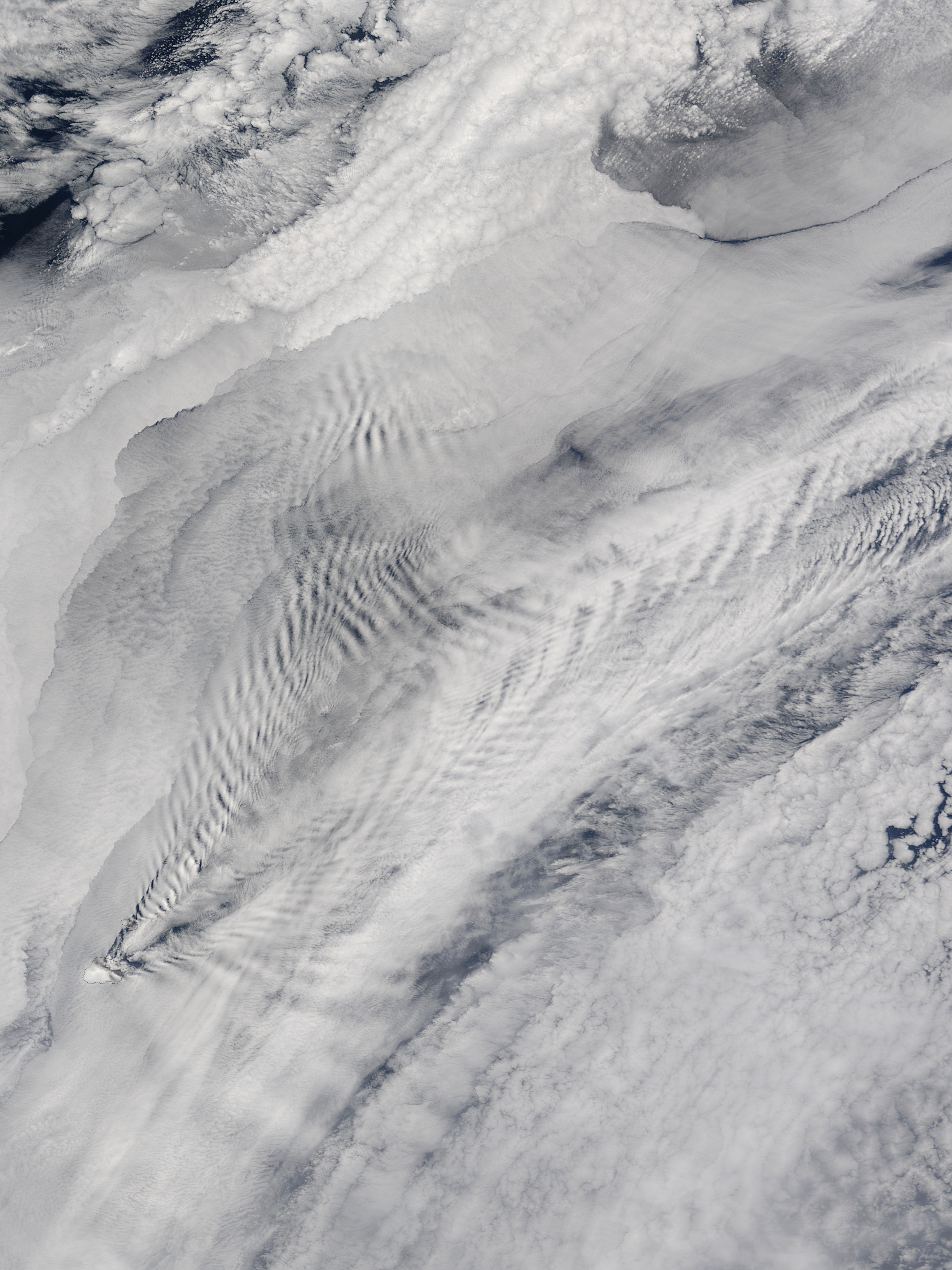 Early November 2015 brought cloudy skies and intriguing patterns over the Prince Edward Islands in the South Indian Ocean. The Moderate Resolution Imaging Spectroradiometer (MODIS) aboard NASA’s Terra satellite captured this scene on November 5. The Prince Edward Islands have been outlined in black so they can be viewed under the heavy cloud cover. The wind is blowing from the southwest to the northeast. On the windward side of the island the clouds are undisturbed. On the leeward side, however, the turbulent air has formed a pattern known as ship-wave-shaped clouds. The pattern gets its name because the cloud pattern resembles the waves created by moving objects, like a ship or even a duck. In this case, the object (Prince Edwards Islands) were stationary, and it was the wind moving past. While the mechanisms are different, the waves generated in each fashion have similar forms. In this case, the moving air swept around the tall peaks of the mountains on the Prince Edward Islands and created turbulent air on the leeward side. The flow of the turbulence is in a spreading V shape behind the point. At the same time, the forward motion occurs in waves, with peaks and trough as the turbulent air flows further away from the point source which caused it. When atmospheric conditions are right, cloud form on the cool peaks of a wave of air but cannot form on the low trough. The result, as seen in this image, are areas of clear and cloud-filled stripes perpendicular to the forward motion of the turbulence.